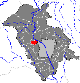 This map shows the area of the Gemeinde (municipality) Judendorf-Straßengel in the Bezirk (district) Graz-Umgebung, Styria, Austria.